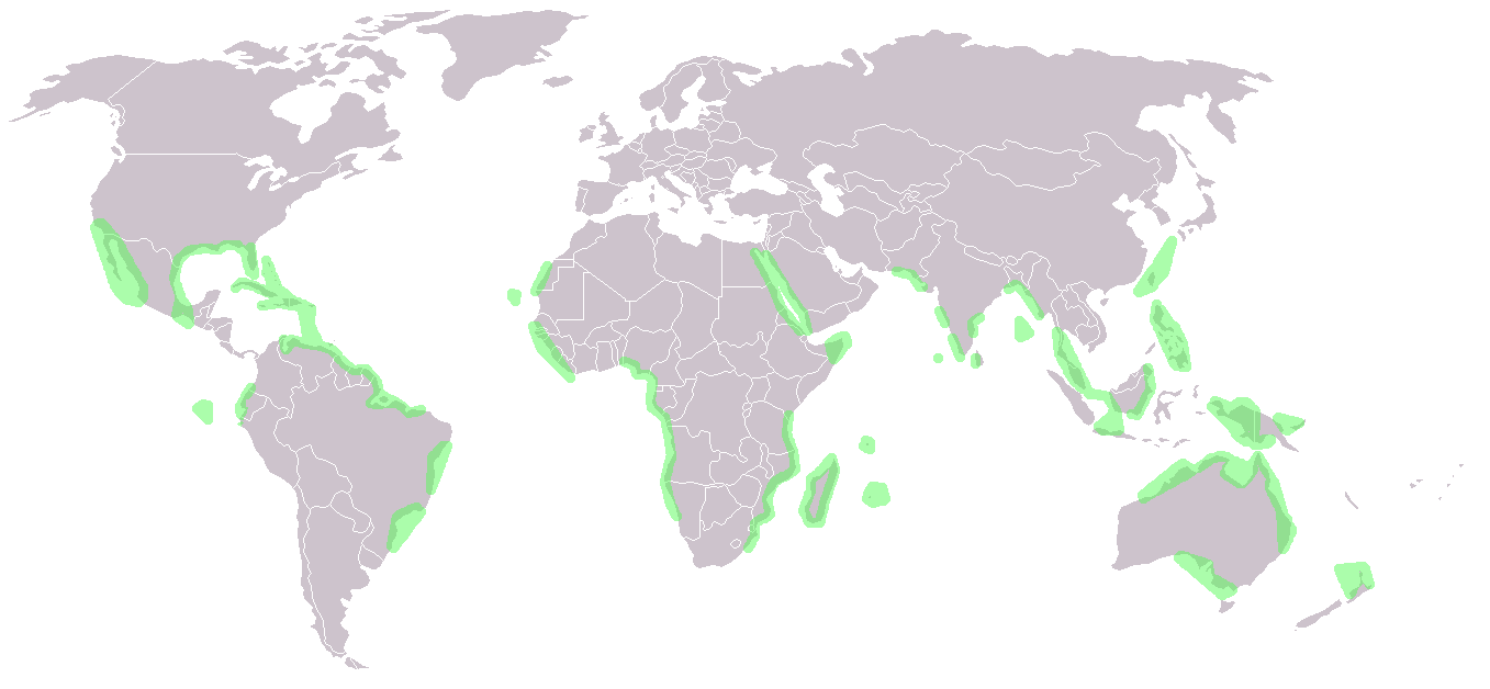 World Map of Mangrove distribution